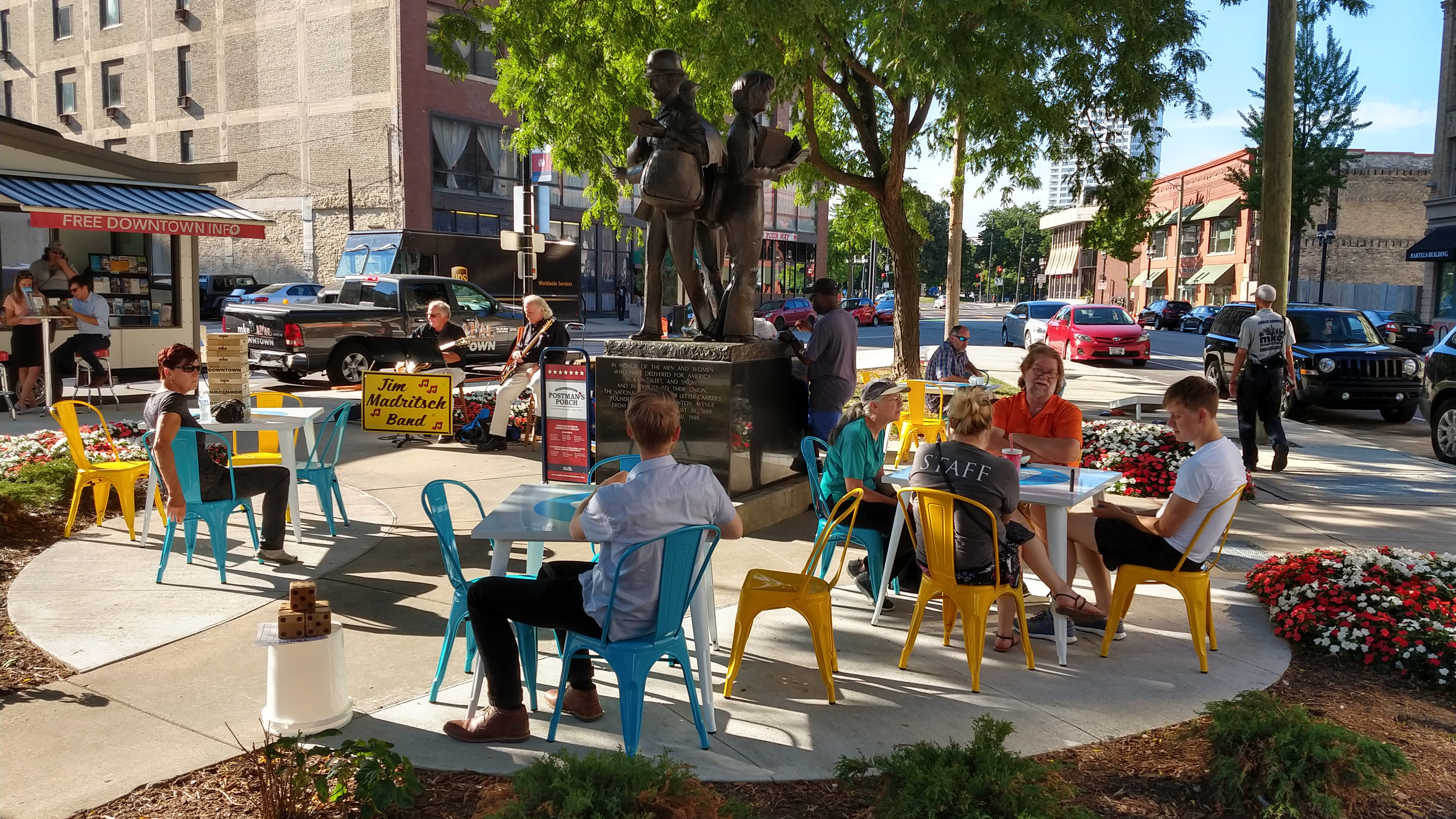 Milwaukee residents gather at the renovated Letter Carrier Monument space for a Postman's Porch Unplugged event.